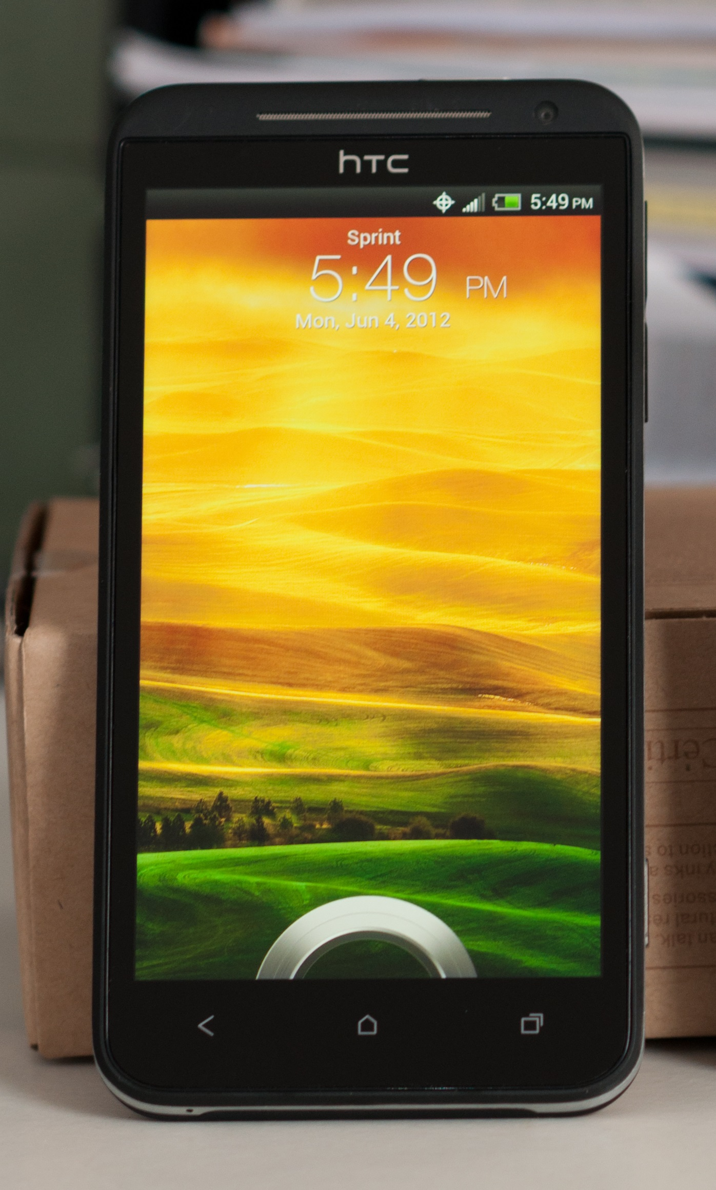 HTC Evo 4G LTE lockscreen